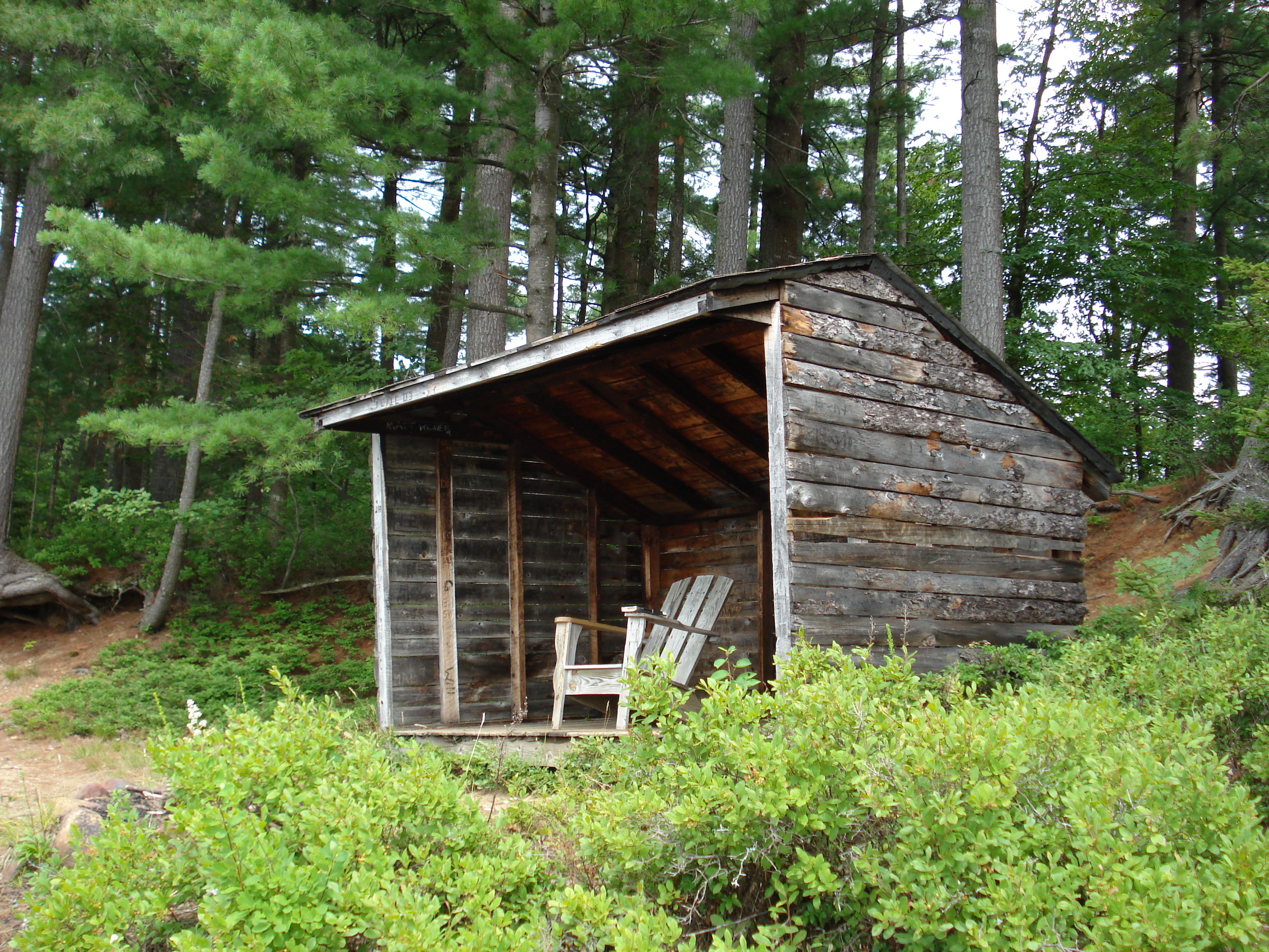 A typical Adirondack Lean-to. Picture taken on Big Moose Lake.